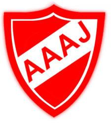 The first logo of the A.A. Argentinos Juniors, 1904.